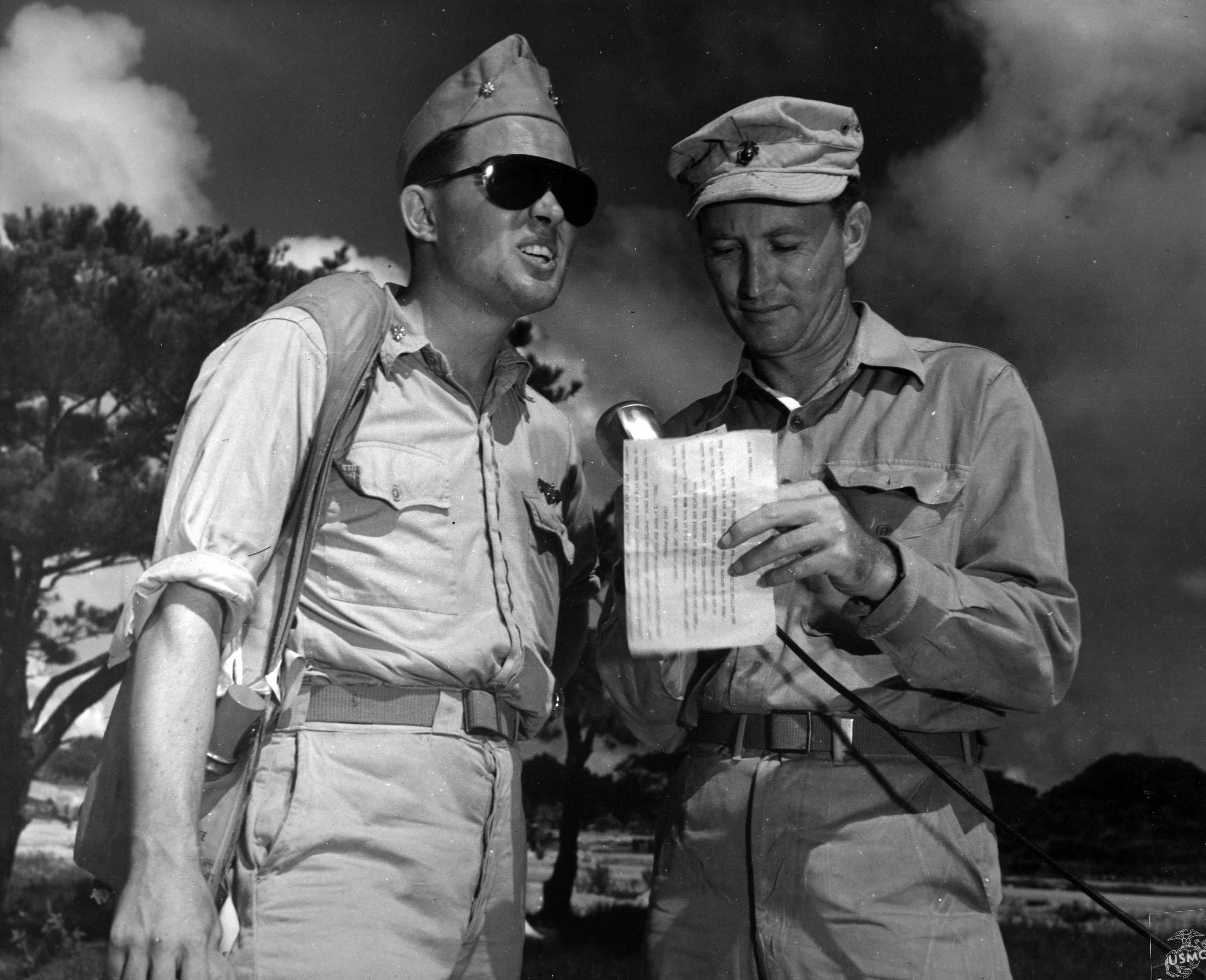 The Skipper: The Night Fighter Squadron 533 skipper, Marine Major Robert P. Keller (left), was the first of the Tigercats pilots to set his plane down on Okinawa. Here he is being interviewed by a Marine radio-correspondent.